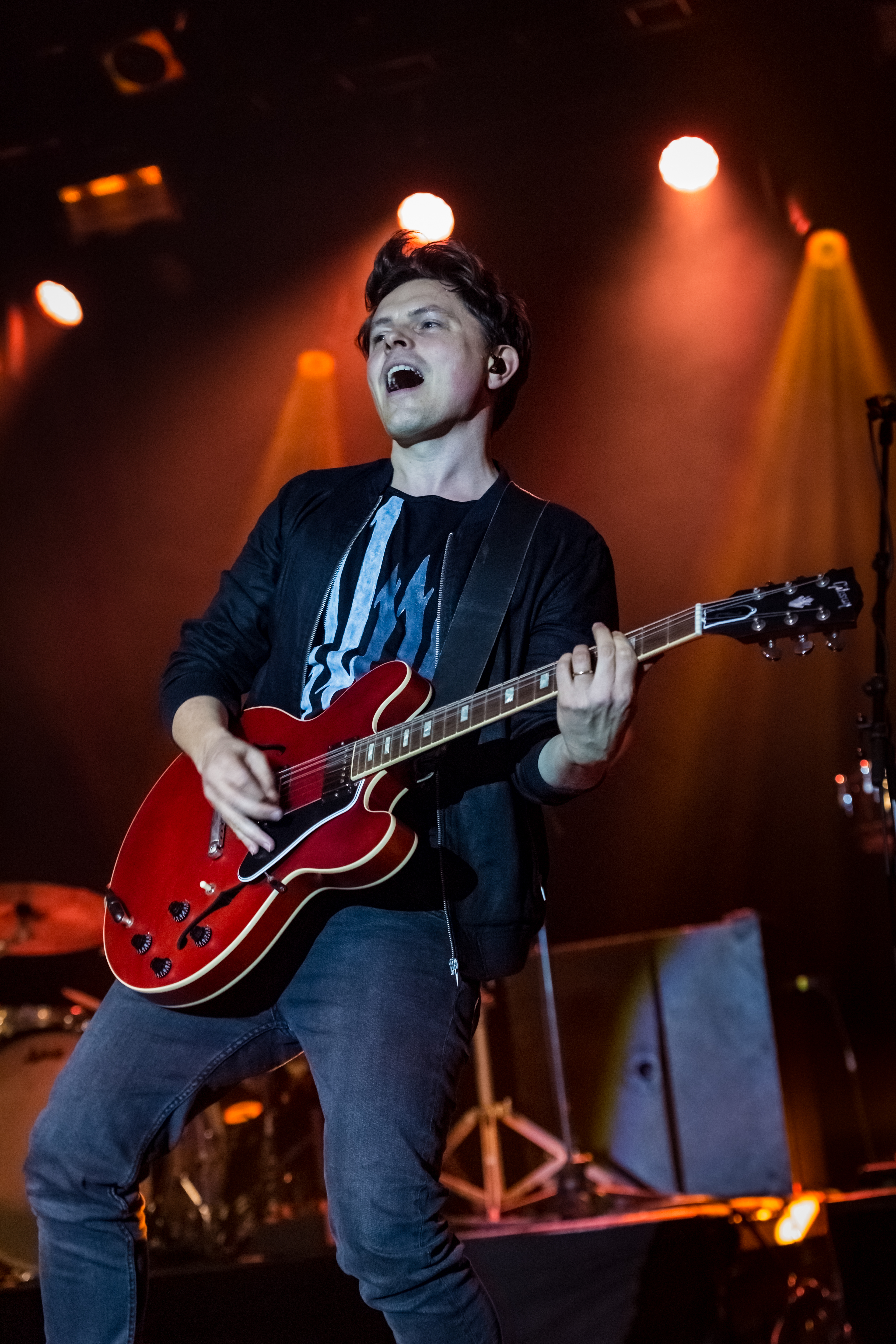 Michael Patrick Kelly - Leverkusener Jazztage 2017